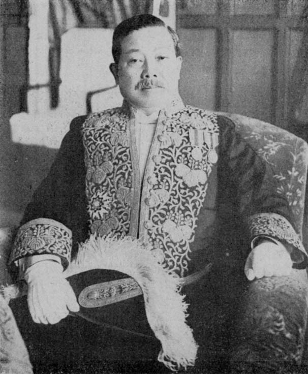 Late Mr. Tokuju Shinpō, former director and emeritus professor of the Sendai Higher Technical School.